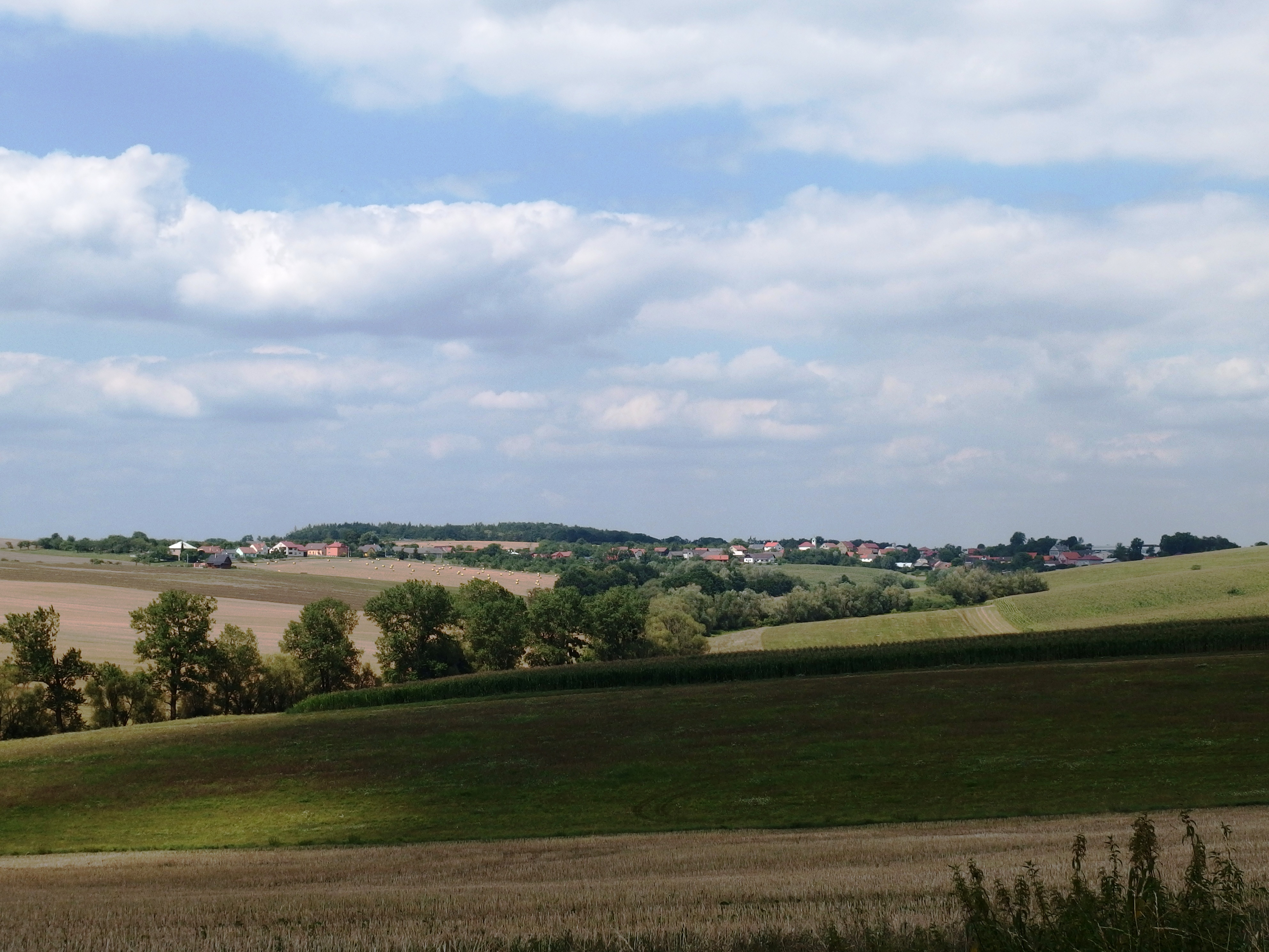 Kelč, Vsetín District, Czech Republic, part Němetice.